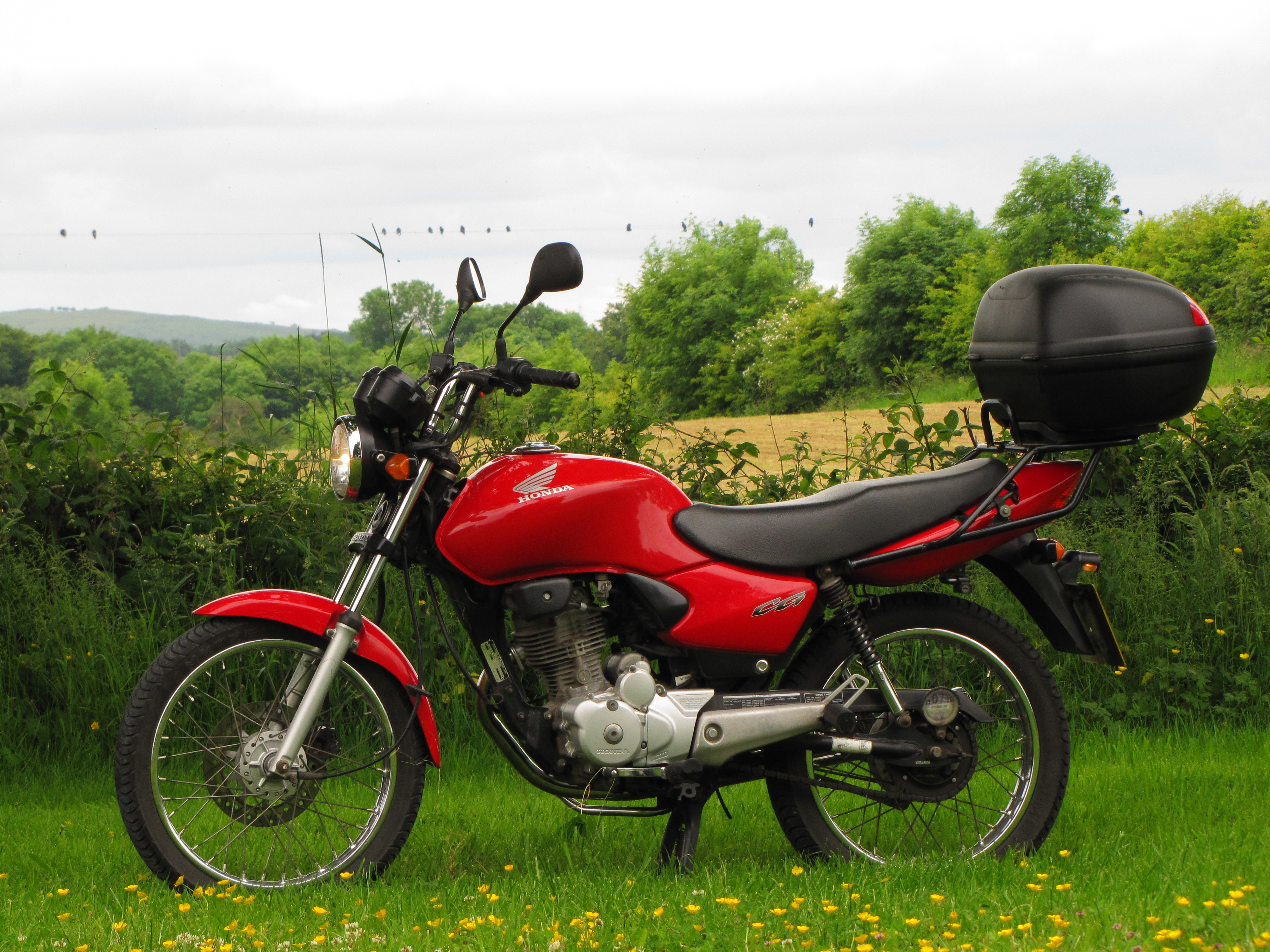 Honda CG125 ES4 with aftermarket rack and topbox fitted